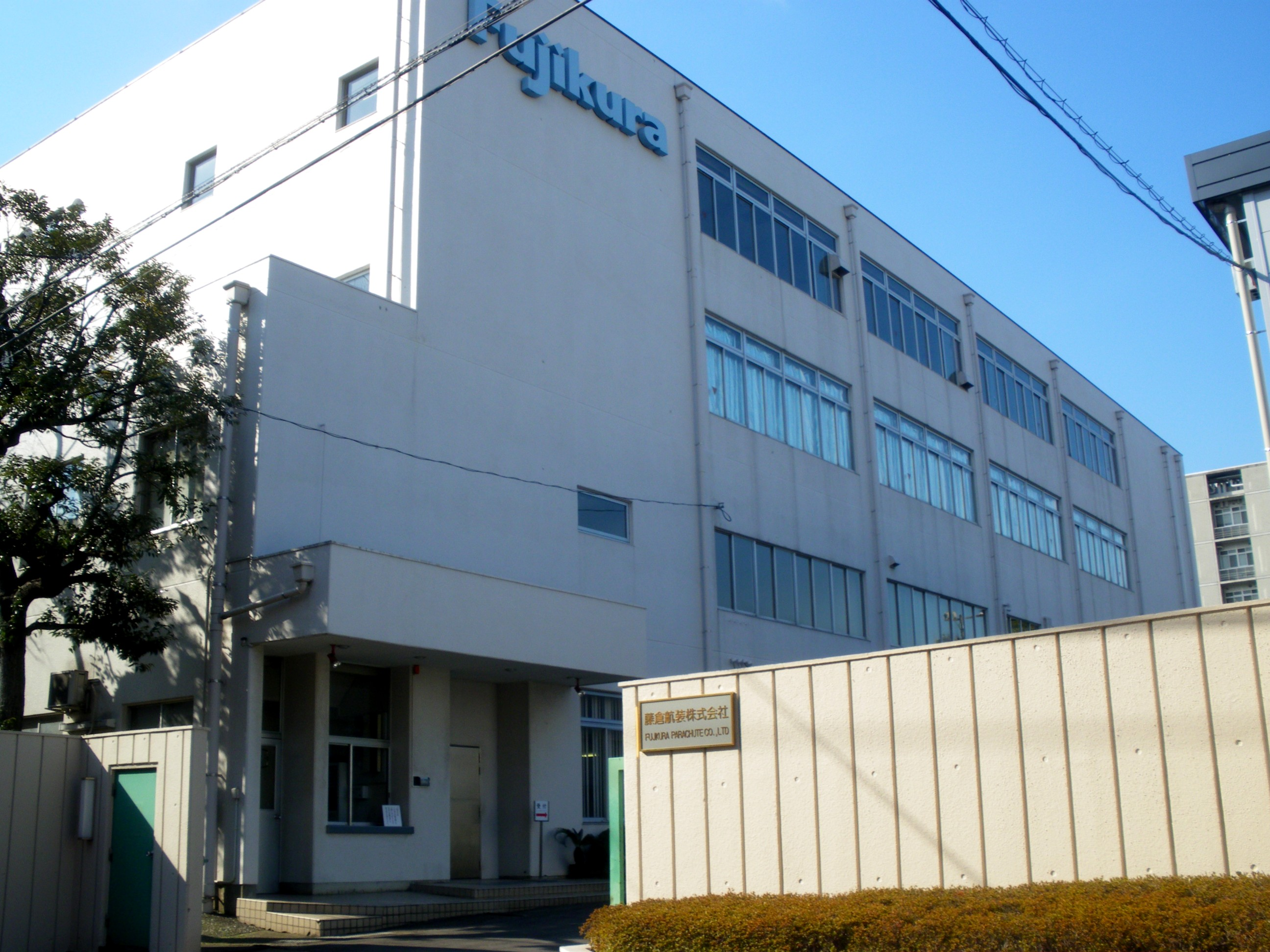 Fujikura Parachute head office(Ebara,Shinagawa,Tokyo)